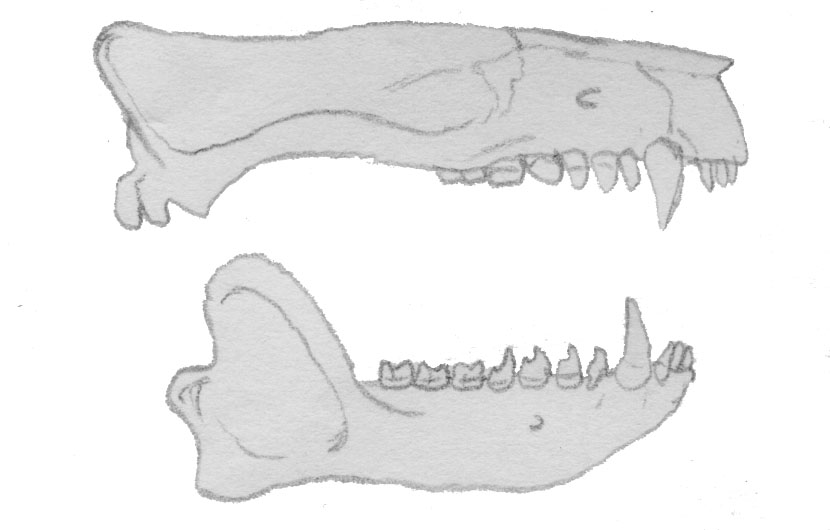 Skull of Onychodectes, a primitive taeniodont mammal